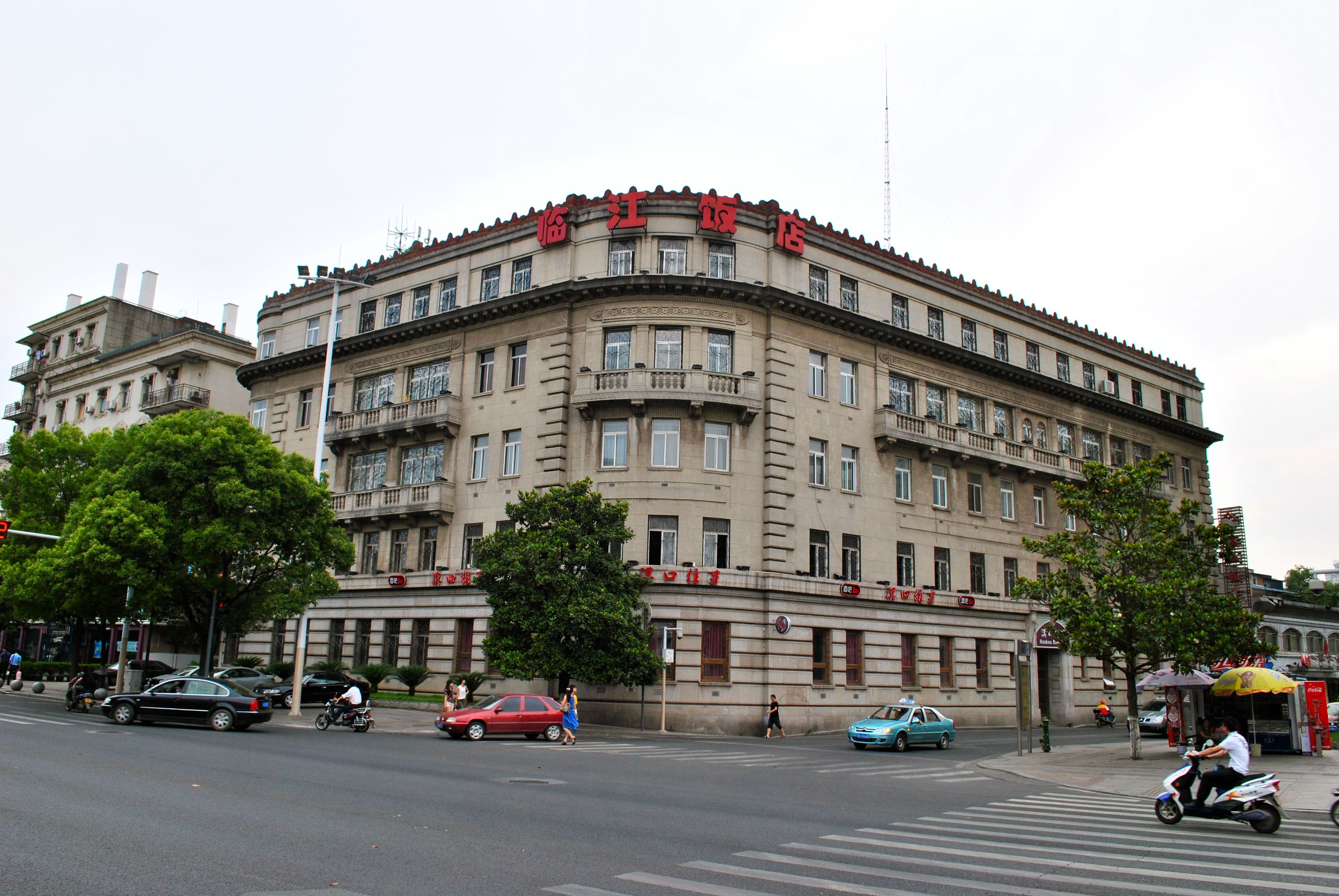 The Bund Hotel